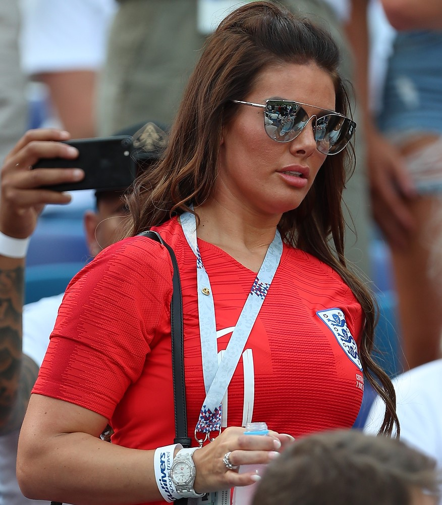 2018 FIFA World Cup Match 30, England v Panama